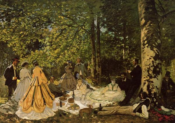 Claude Monet's colour sketch for his unfinished Déjeuner sur l'herbe, 1865, Pushkin Museum